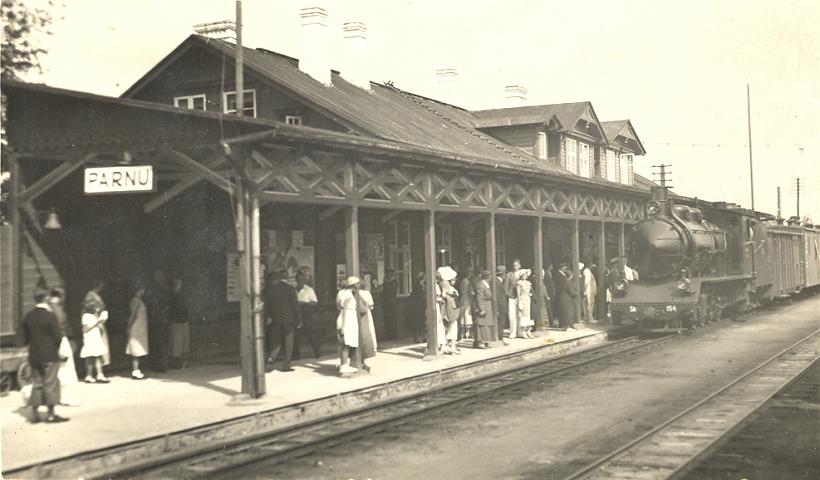 Old Parnu railway station.